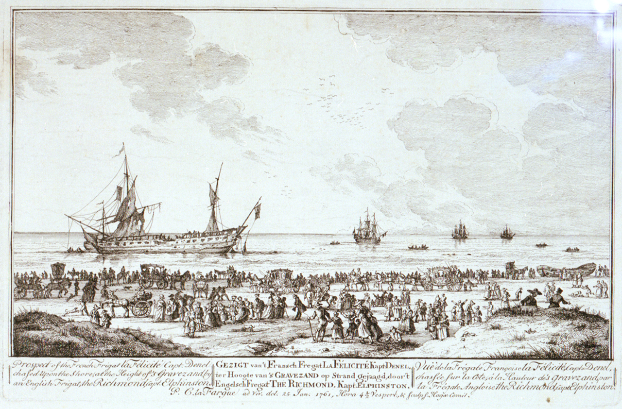 Prospect of the French Frigat la Felicite Capt Denel chased upon the shore, at the Height of 's Gravezand and by an English Frigat, the Richmond Capt Elphinstone